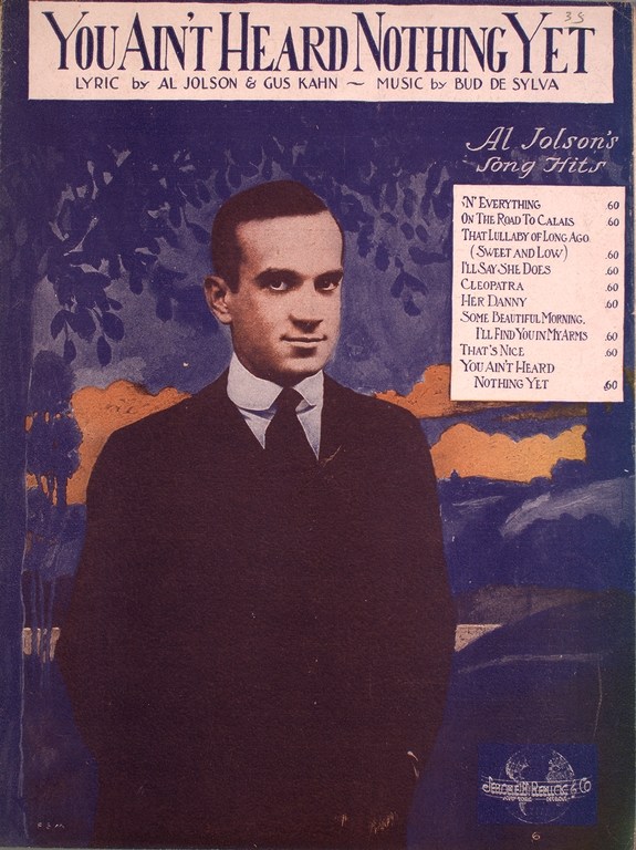 "You Ain't Heard Nothing Yet" sheet music cover with photo of Al Jolson